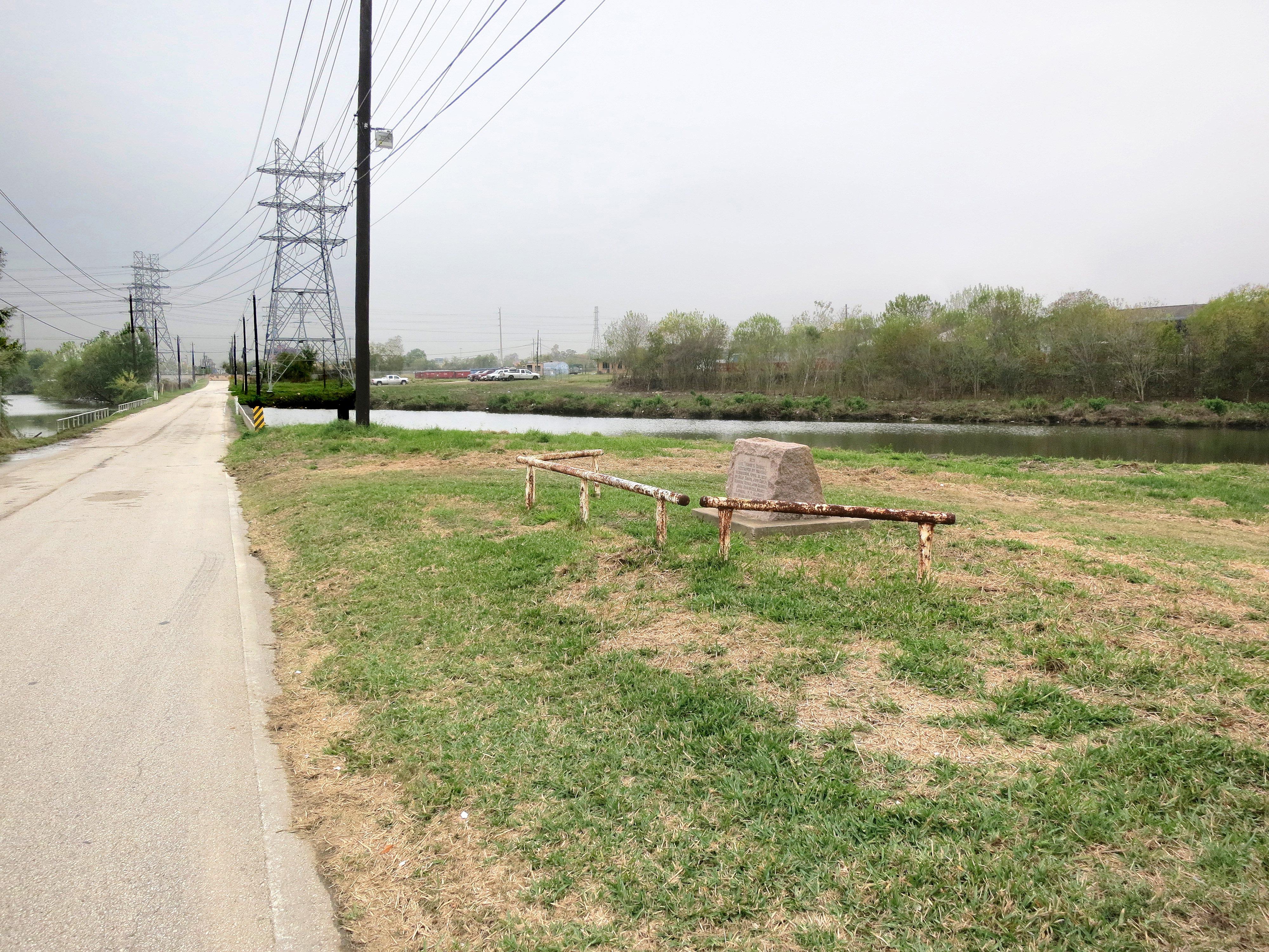 Vince's Bridge over Vince's Bayou destroyed by military permission April 21, 1836 by Deaf Smith, John Coker, Denmore Reves, John Garner, John Rainwater, Moses Lapham, V.P. Alsbury. This historic deed is believed to have insured the capture of Santa Anna